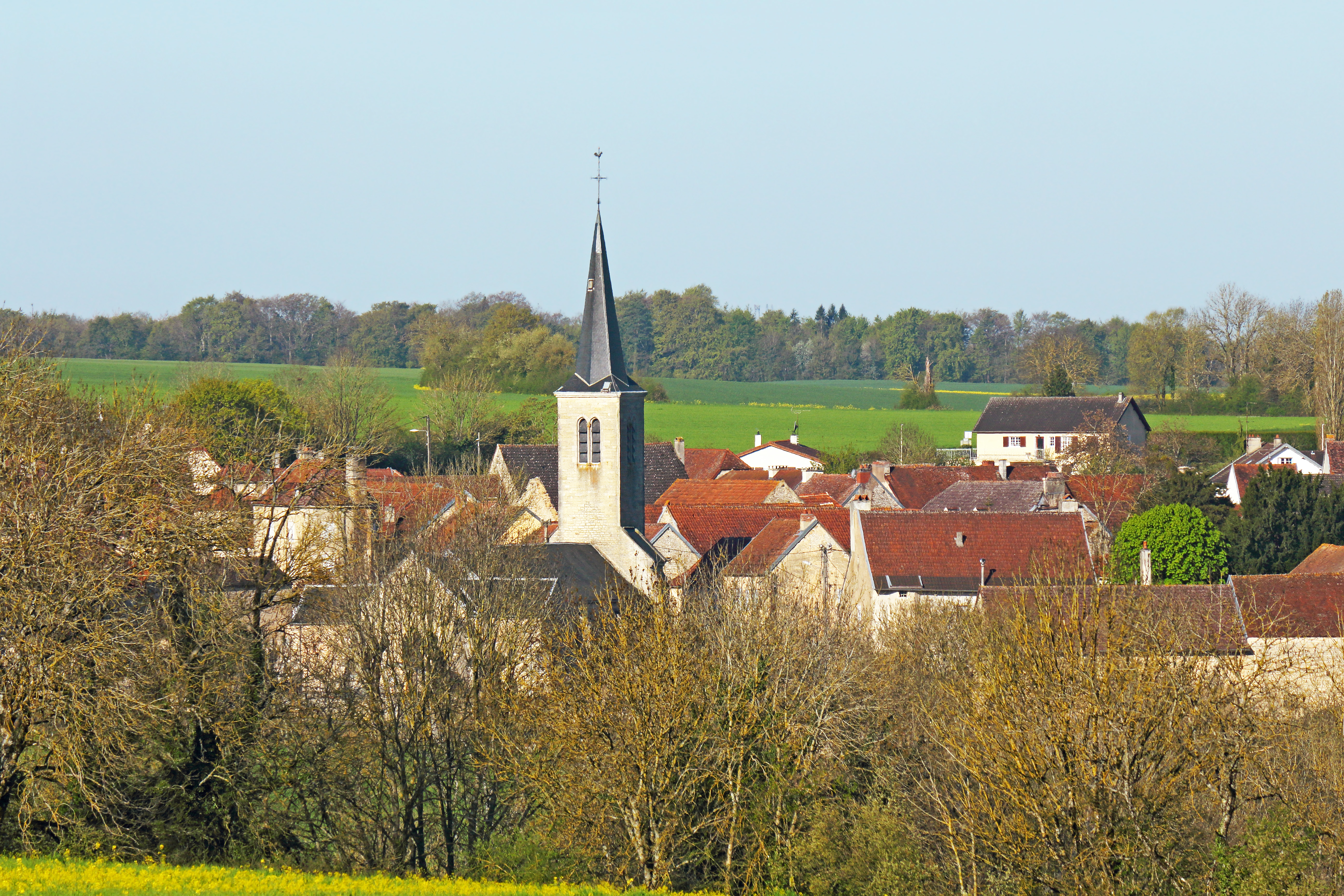 Center of the village Baigneux-les-Juifs